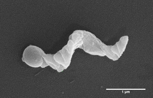 A Scanning Electron Microscope picture of a helical nanomotor coated with iron thin film.